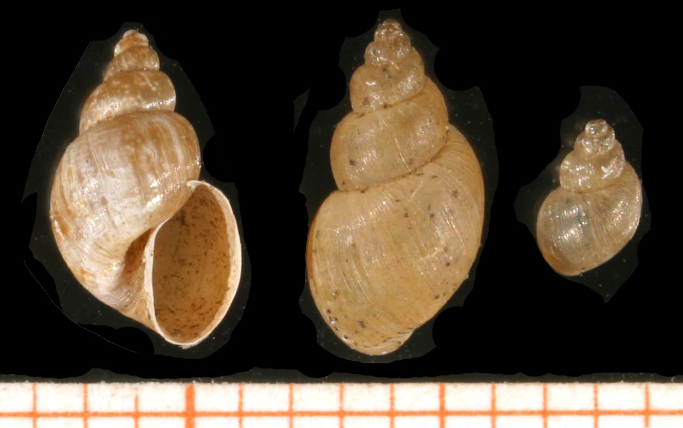 Photo of Galba truncatula. Scale in mm. Locality: Schleswig-Holstein, Unterlauf Kronsbek. Date: 03-March-1952.